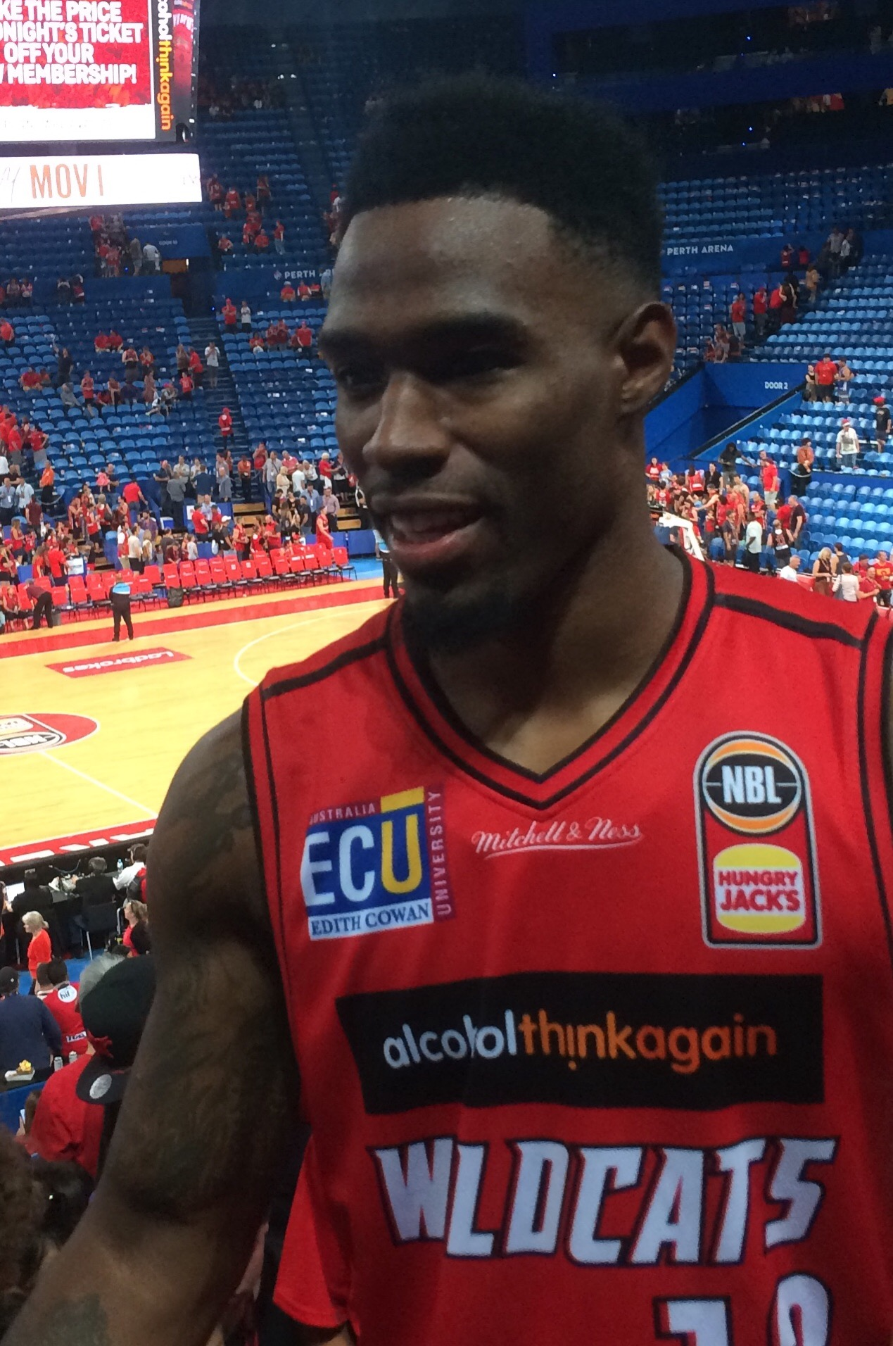 Derek Cooke of the Perth Wildcats, at Perth Arena following a win